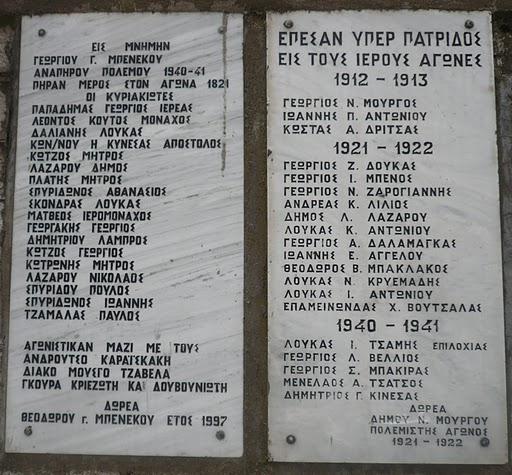 Memorial site in Kyriaki, Boieotia, Greece, which commemorates the fallen villagers from 1821 from 1912 to 1922 and from 1940 to 1941